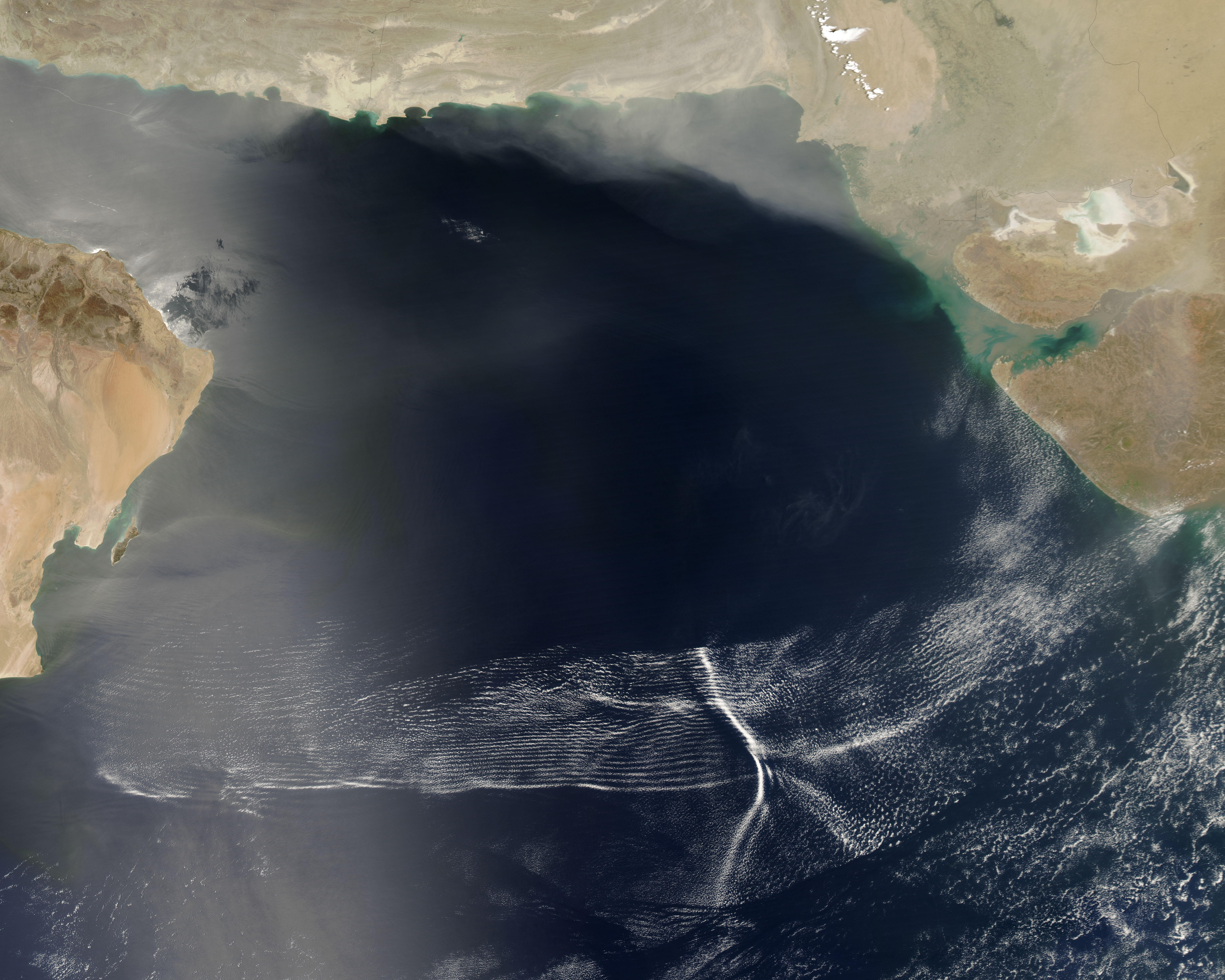 Undular bore above Arabian Sea